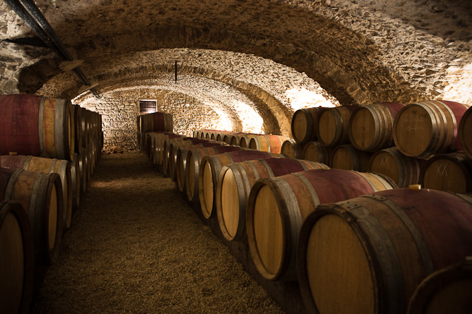 The cellar under the Chateau du Moulin à Vent